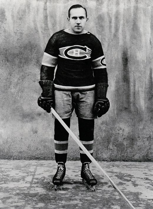 Howie Morenz, centre of the Montreal Canadiens of the and NHL from 1923 to 1934 and again from 1936 to 1937. Photo was taken in regards to the Canadiens Stanley Cup championships in 1930.